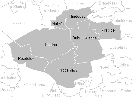 Cadastral map of Kladno